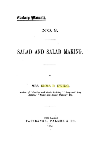 Salad and Salad Making, By Emma Pike Ewing